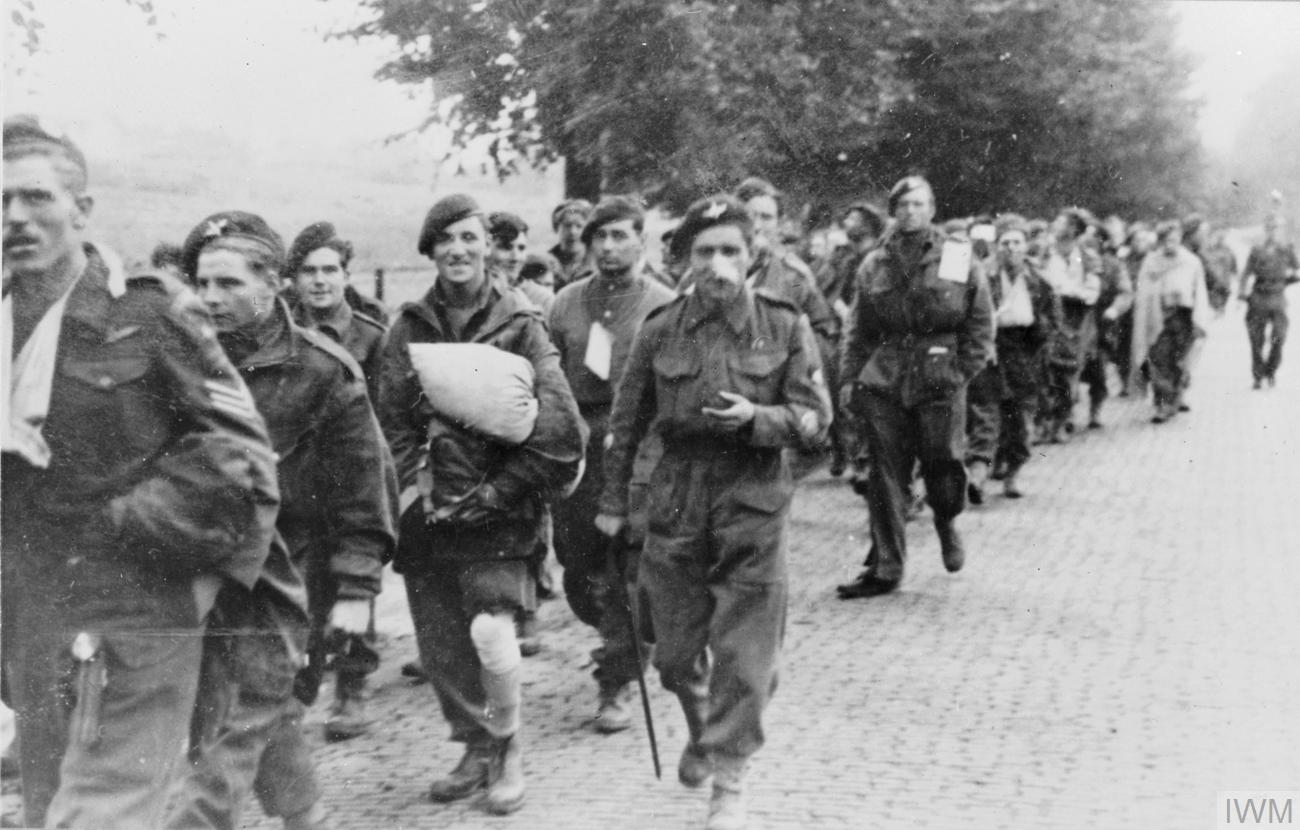 British paratroops being marched away by their German captors. Some 6,400 of the 10,000 British paratroops who landed at Arnhem were taken prisoner, a further 1,100 had been killed.